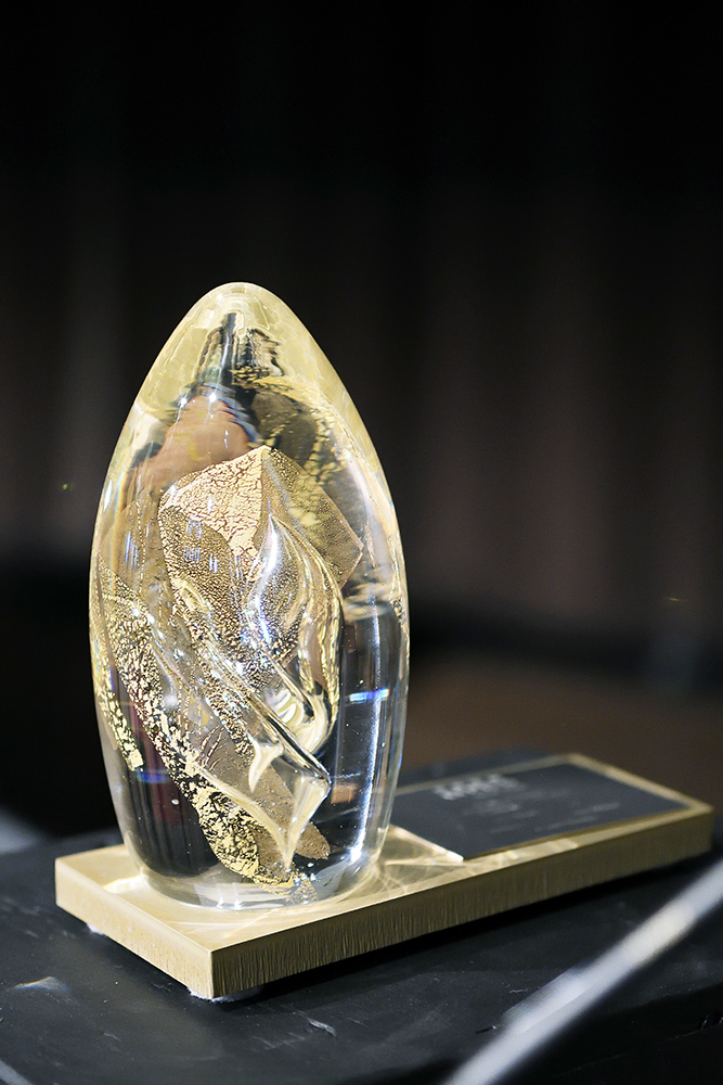 Trophée prix Opus